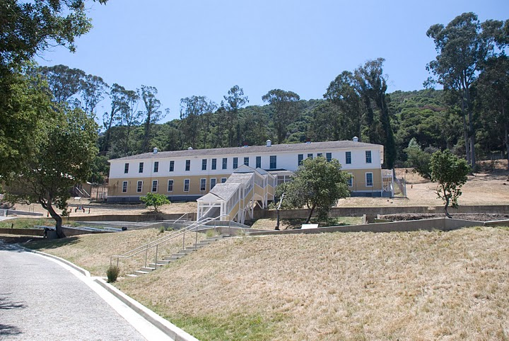 Detention Barracks at the Immigration Station